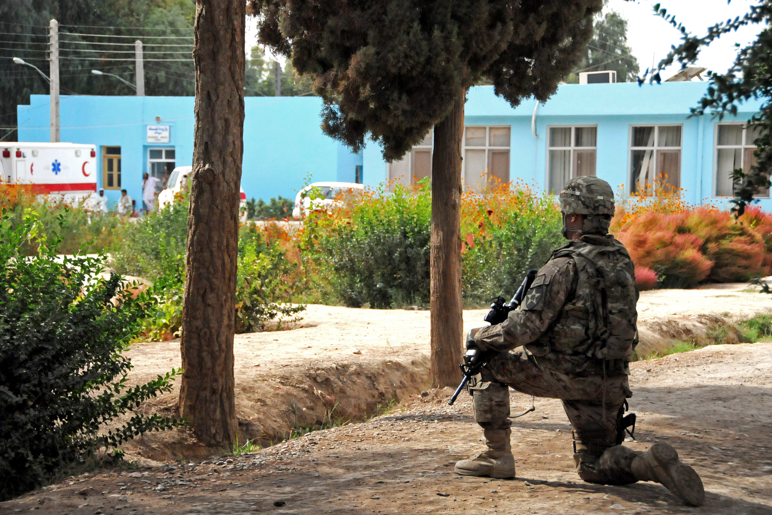 U.S. Army Sgt. William Russell, a security force team member for Provincial Reconstruction Team (PRT) Farah, pulls security during a key-leader engagement at Farah City Hospital, Oct. 30. PRT Farah's mission is to train, advise, and assist Afghan government leaders at the municipal, district, and provincial levels in Farah Province Afghanistan. Their civil military team is comprised of members of the U.S. , U.S. Army, the U.S. Department of State and the U.S. Agency for International Development (USAID). (Photo ID: 770186)